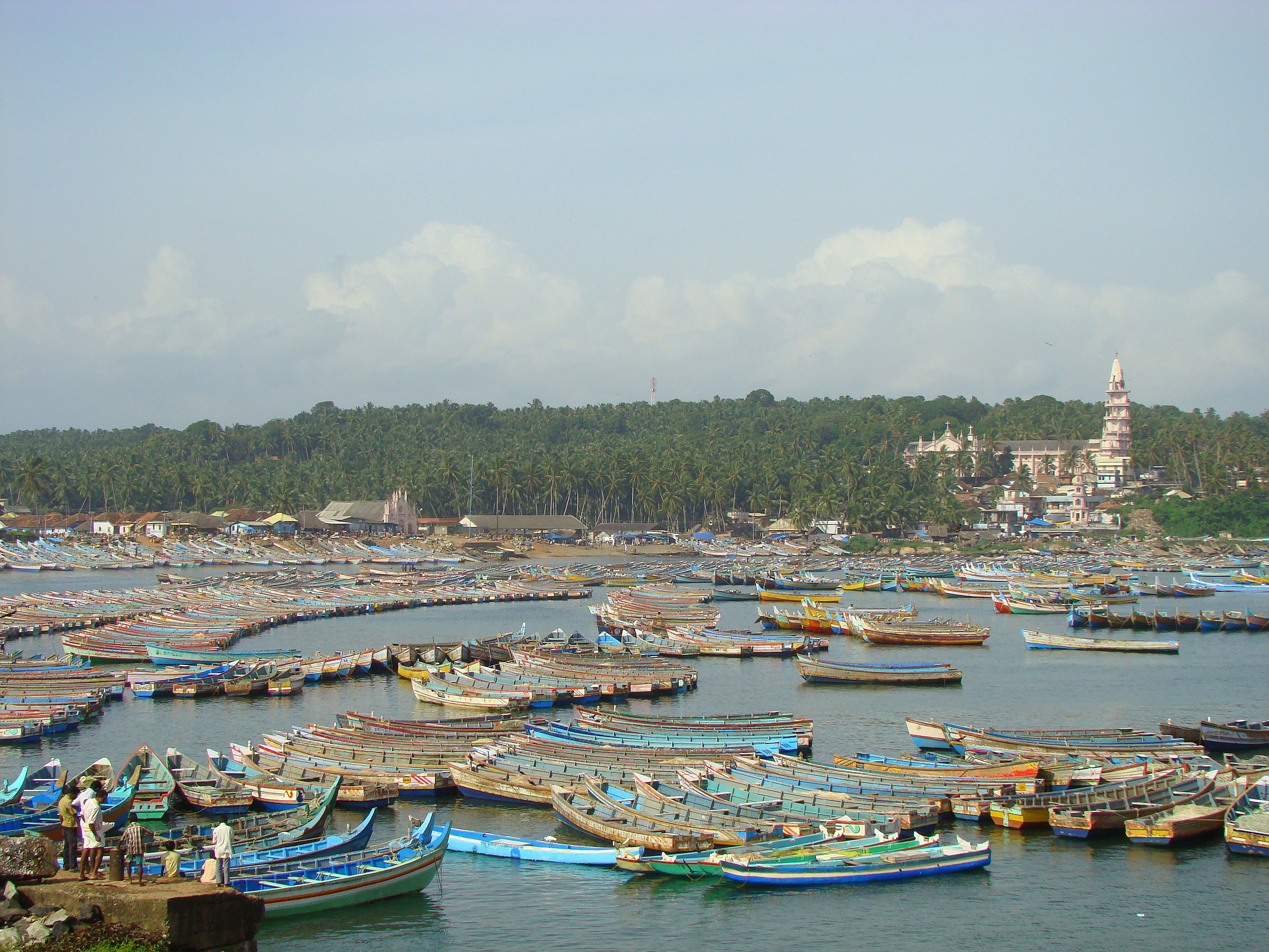 A natural harbor in Vizhinjam, India.